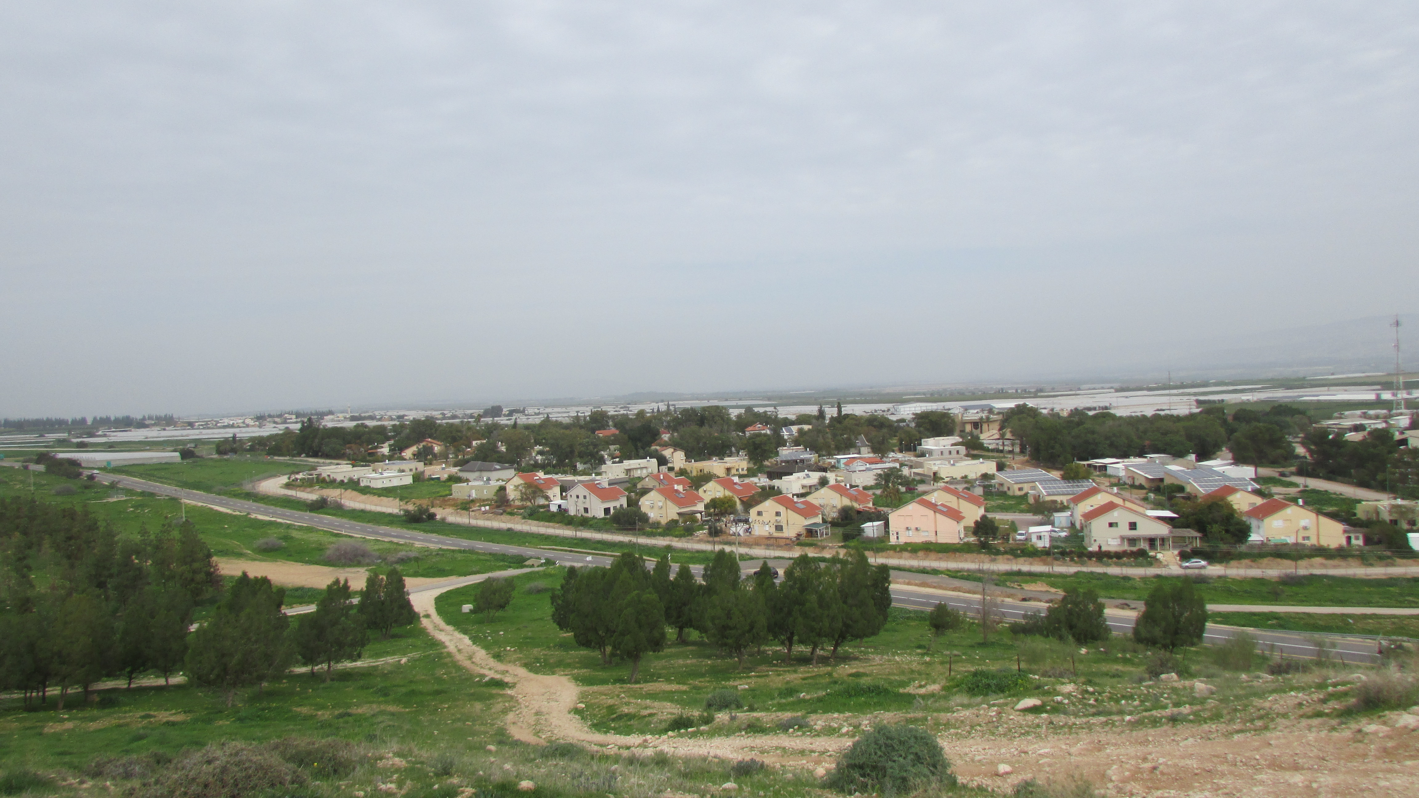 Mehola. Ein al-Beida is behind on the left.